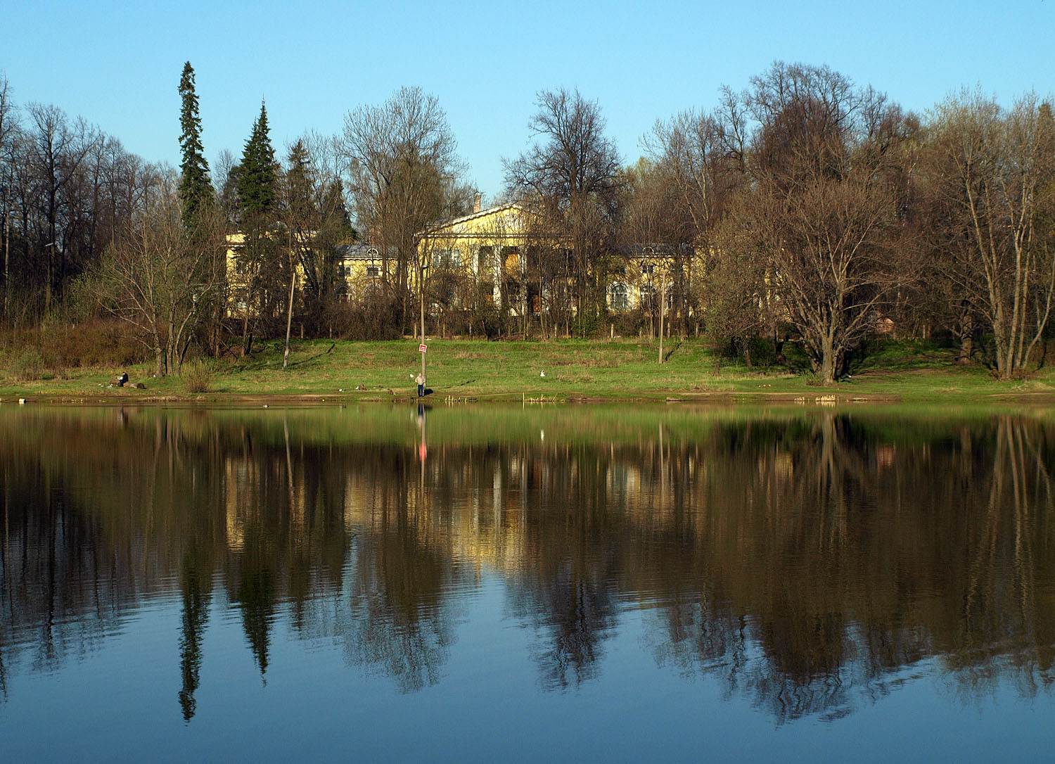 Vinogradovo Estate, Severny district of Moscow. 1912, Ivan Zholtovsky